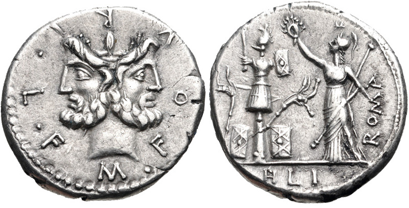 M. Furius L.f. Philus 120 BC. AR Denarius (19mm, 3.86 g, 11h). Rome mint. Laureate and bearded head of Janus / Roma standing left, holding scepter and wreath; to left, trophy of Gallic arms flanked by a carnyx and shield on each side; star above. Crawford 281/1; Sydenham 529; Furia 18. Near EF, lightly toned.